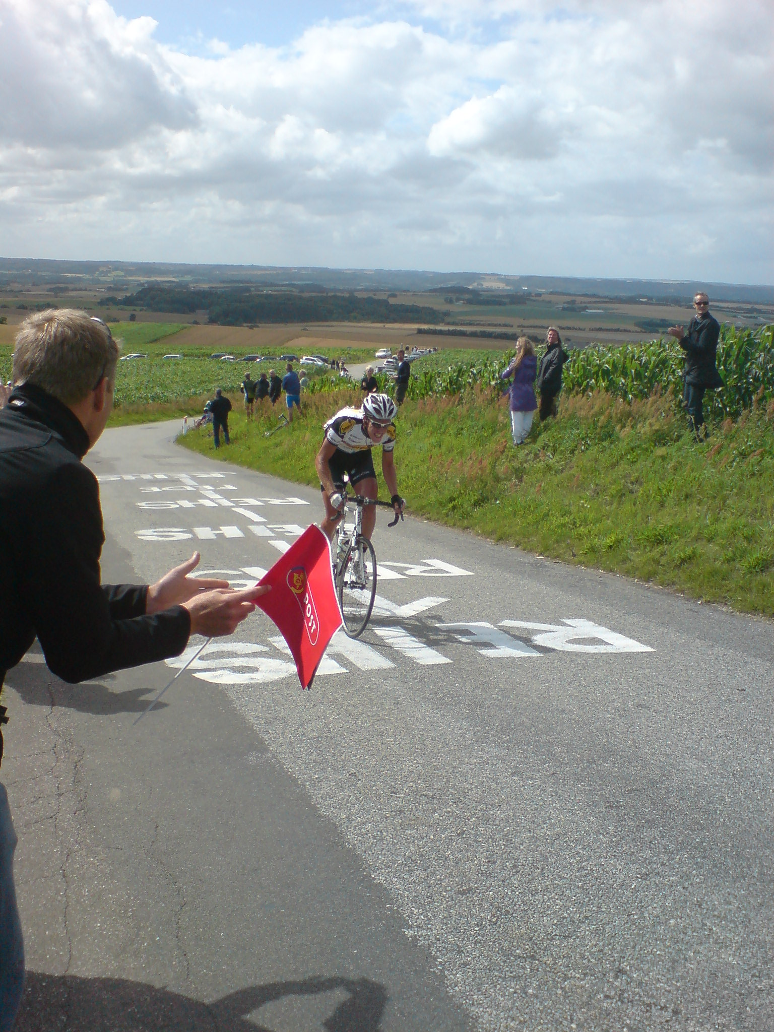 Bart Vanheule on Yding Skovhøj during stage 3 of Post Danmark Rundt 2009.